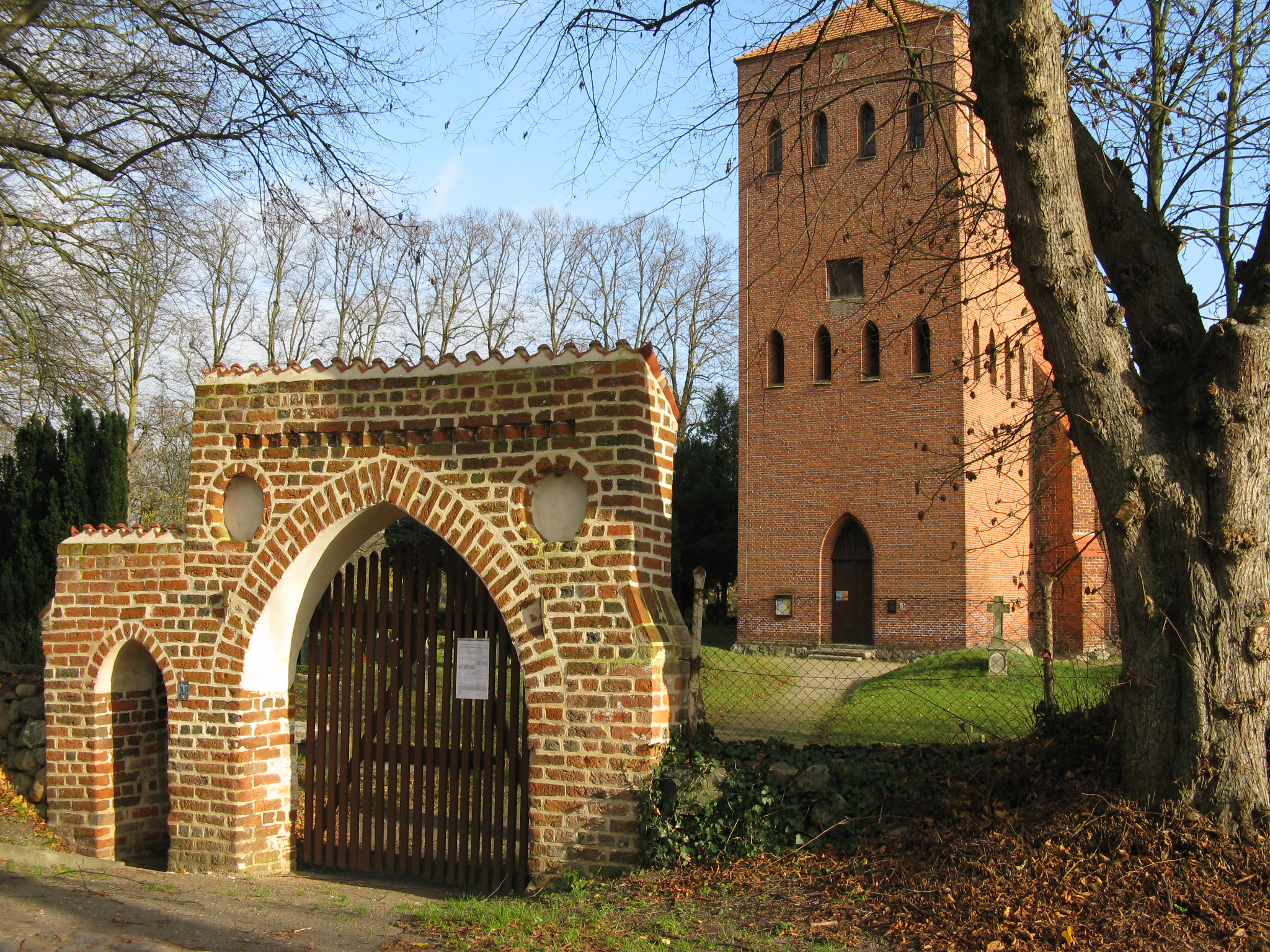 Church in Goldebee, Mecklenburg-Vorpommern, Germany